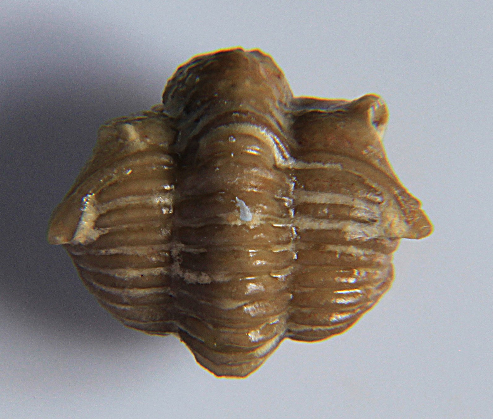 A Frencrinuroides capitonis trilobite, Order Phacopida, Family Encrinuridae, 15mm measures along the roled up axis, dorsal view of the cephalon, collected at the Bromide Formation, near Ardmore, Carter County, Oklahoma, USA, from the early Upper Ordovician (Sandbian)